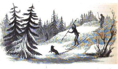 "Wolf chase on skidor", drawn on wood by Alex Fussell and engraved by Mason Jackson